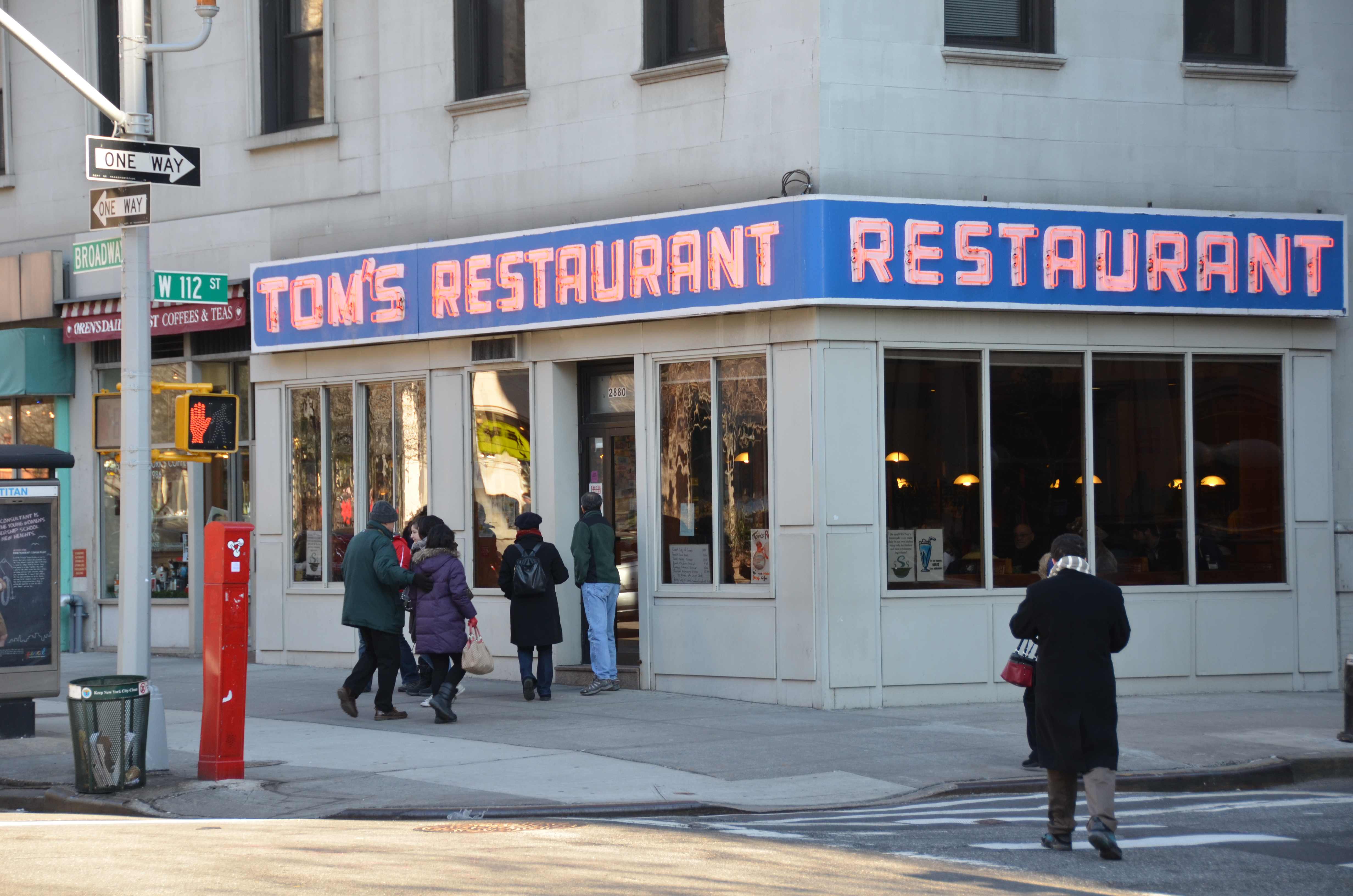 Tom's Restaurant, in New York City, January 15th 2012 View from Broadway